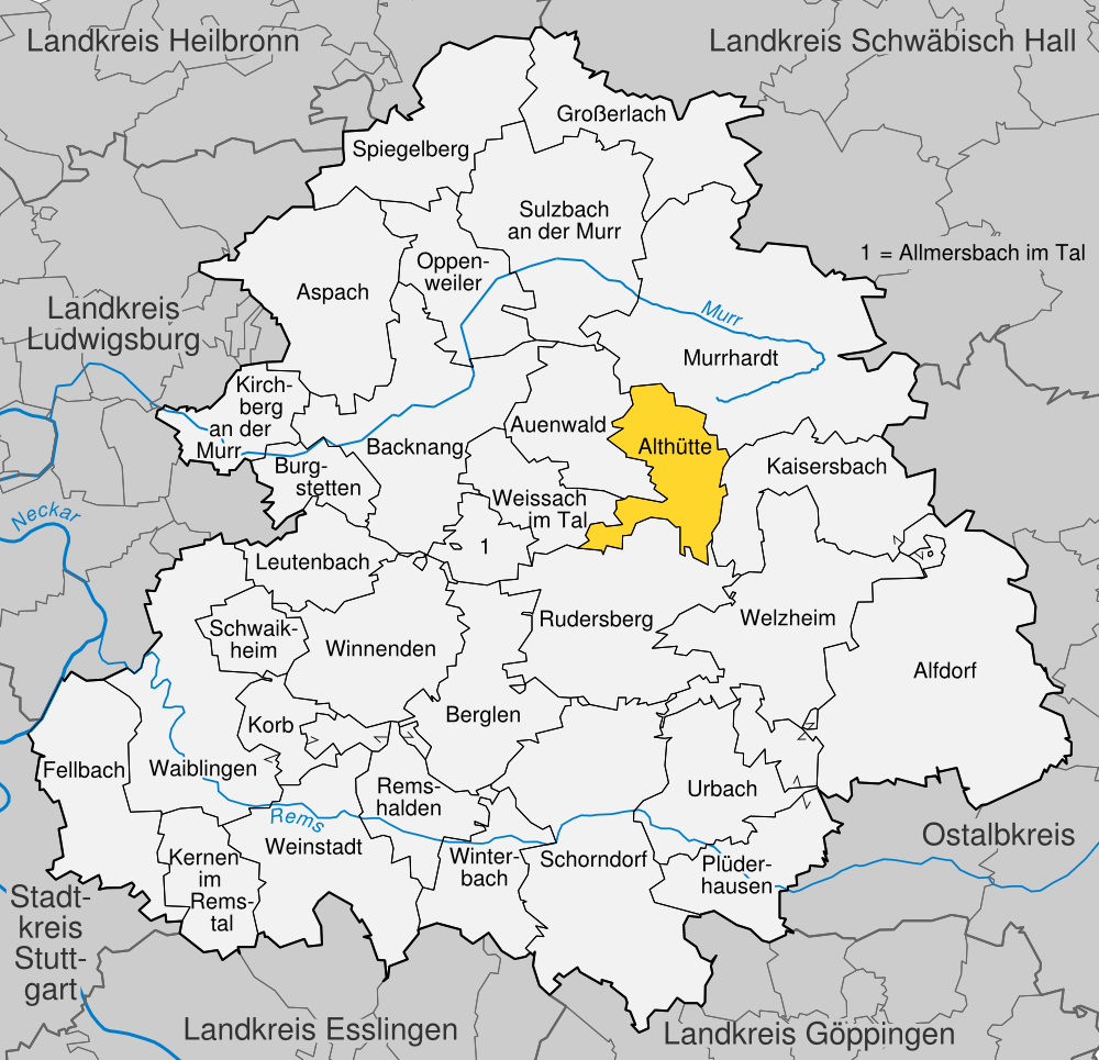 position of Althütte within the Rems-Murr-Kreis, Baden-Württemberg, Germany